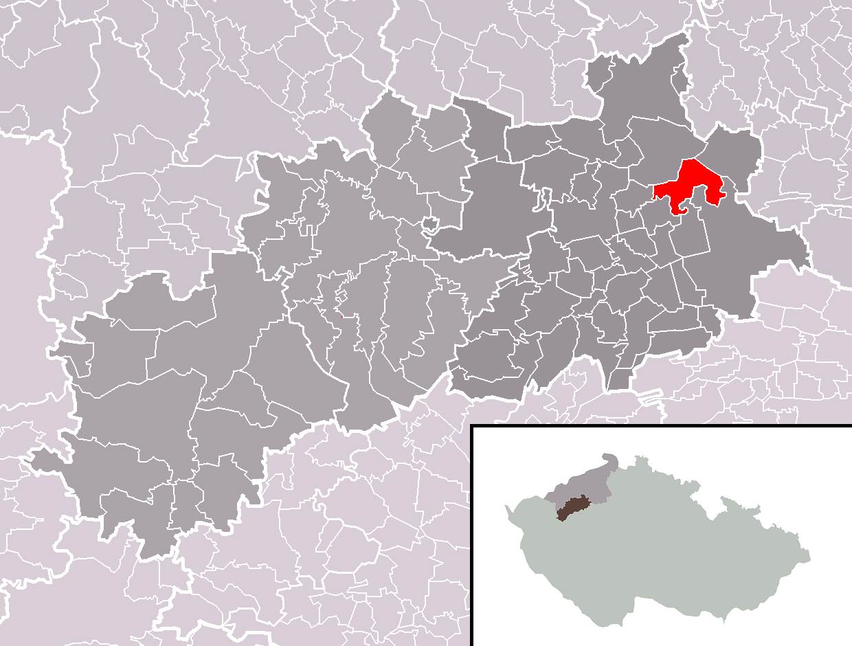 Location of Počedělice municipality within Louny District and administrative area of Louny as a Municipality with Extended Competence.